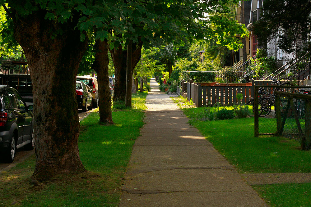 The following is the author's description of the photograph quoted directly from the photograph's Flickr page."Go west, to Commercial Drive. 090608-041 "